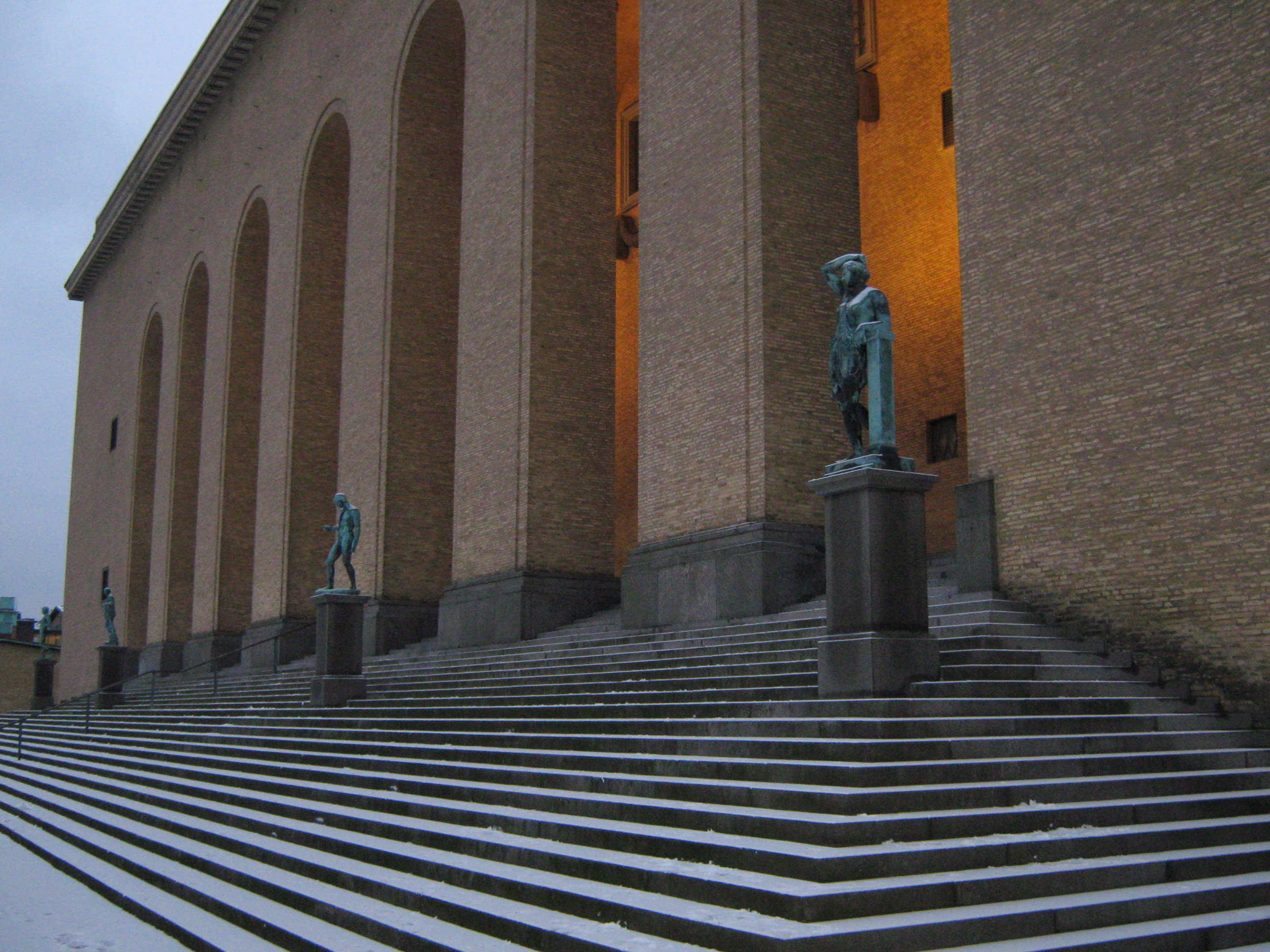 Gothenburg Museum of Art — with replicas of Ancient Greek statues.